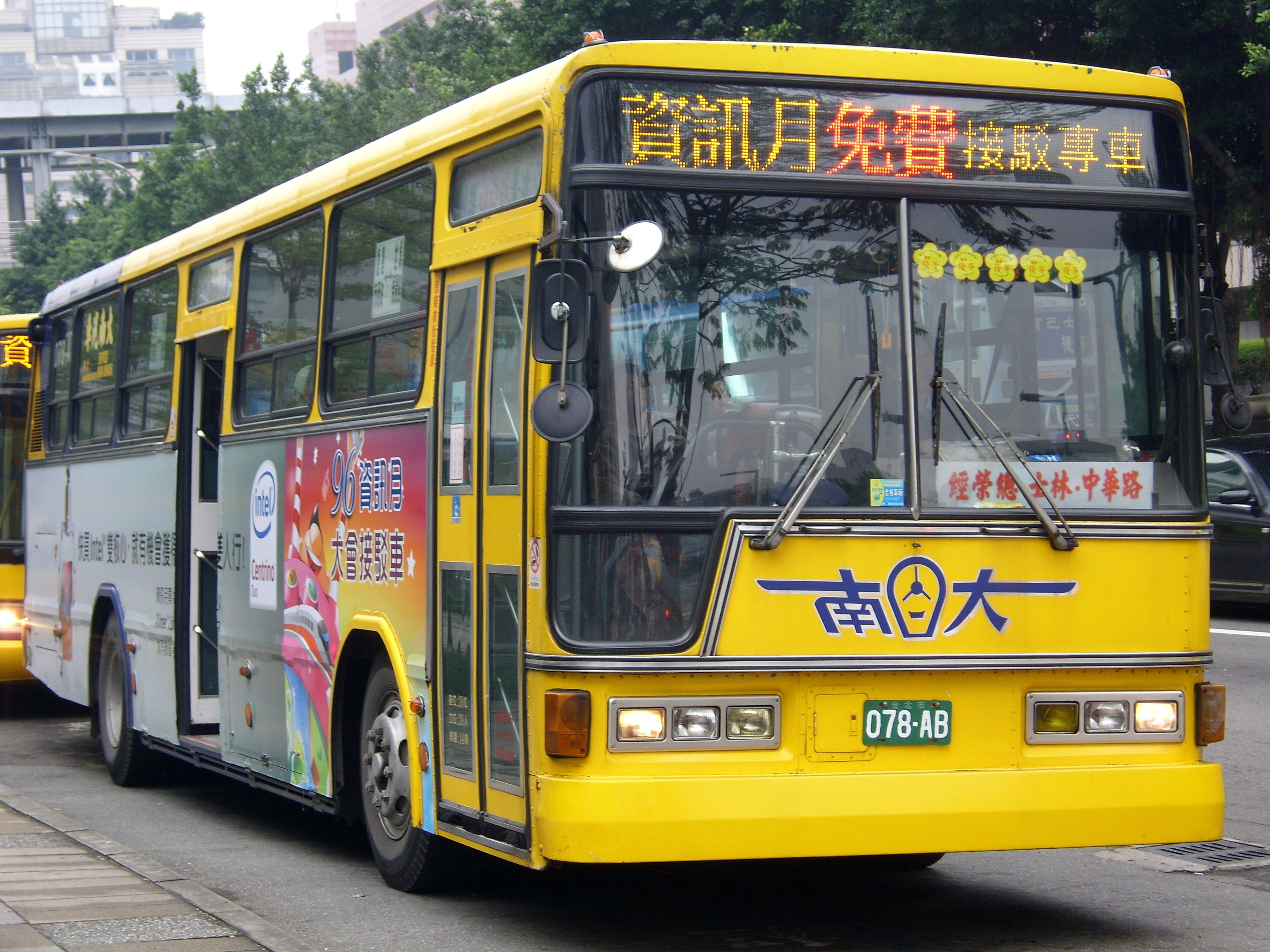 2007 Taipei IT Month: Shuttle Bus by Da-nan Bus Co., Ltd.